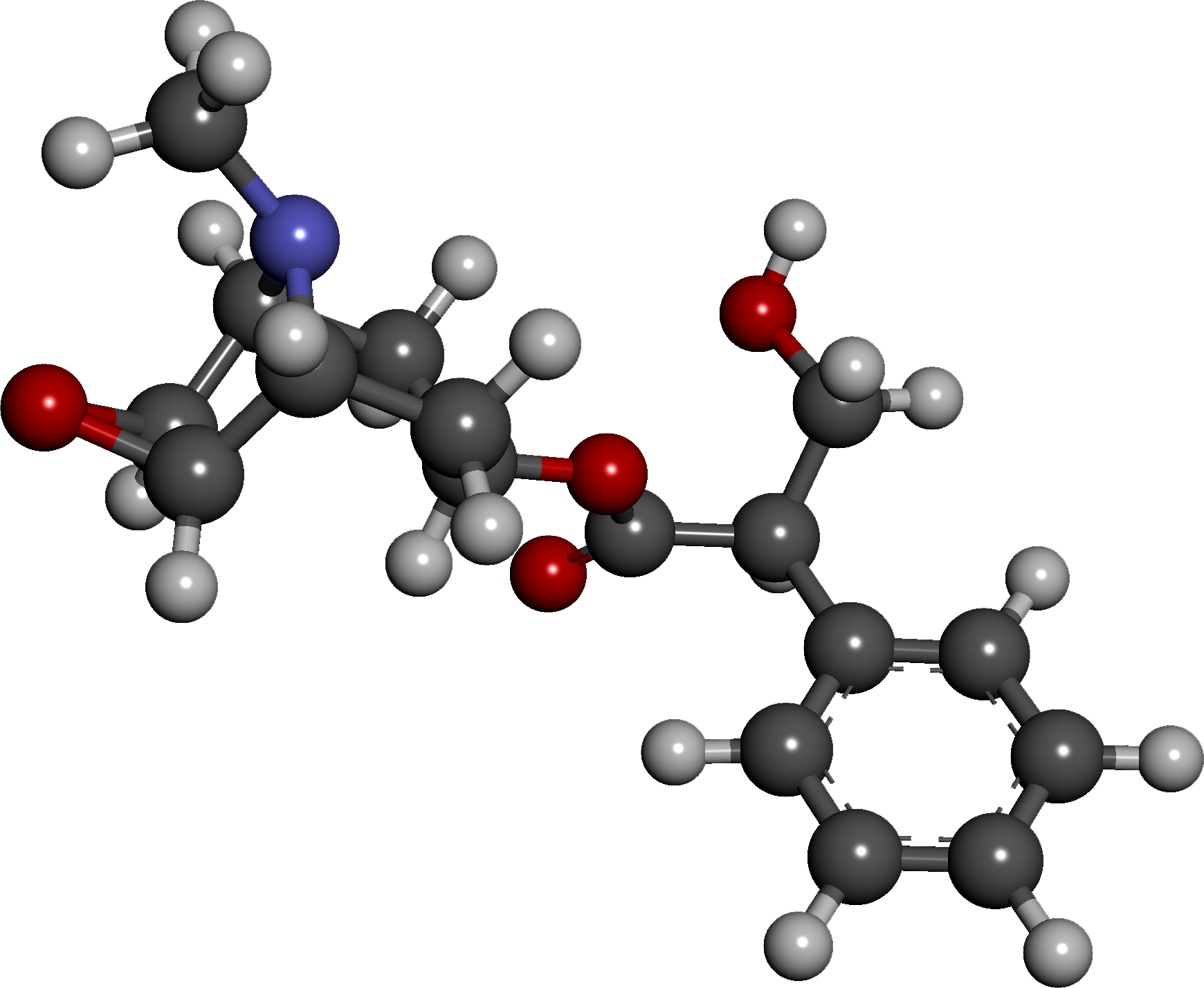 Scopolamine 3D structure